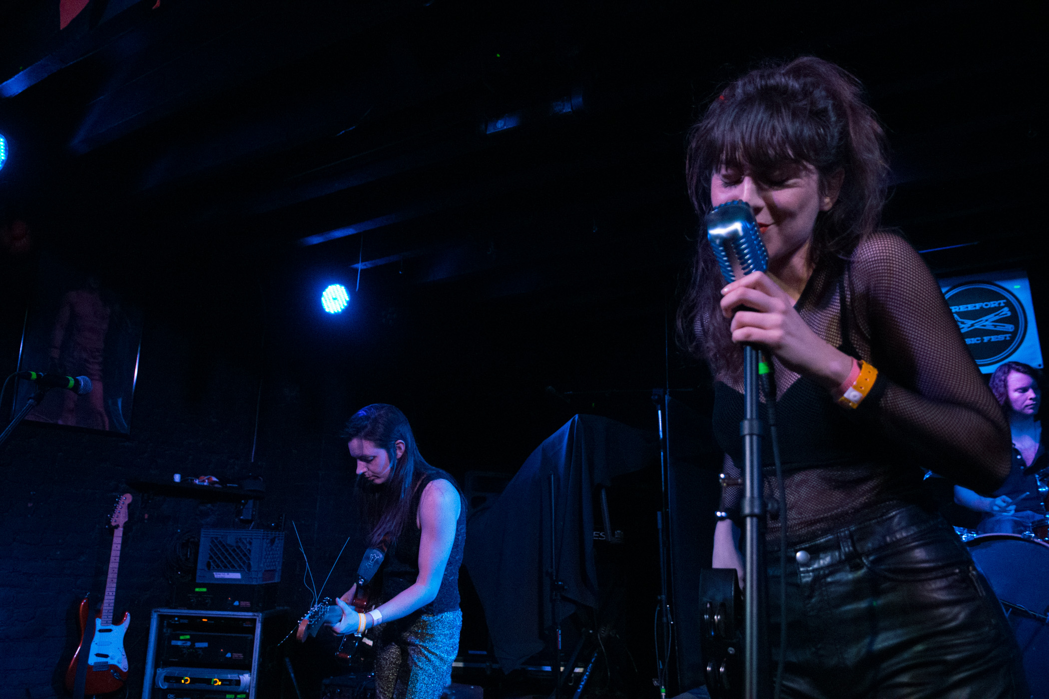 Thunderpussy-Hannah's-Treefort-Credit-Steel-Brooks-8